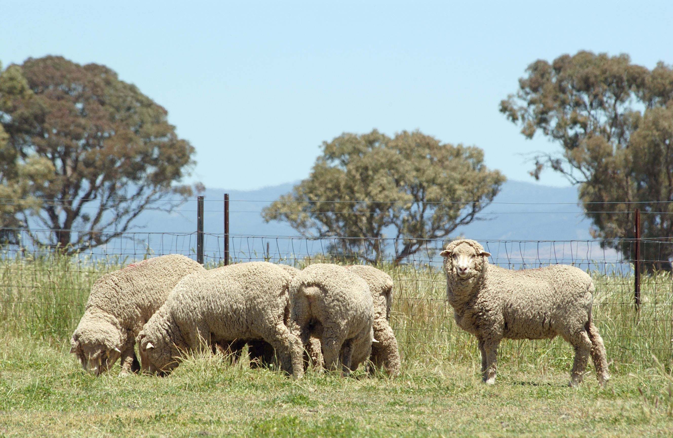 Sheep at Ginninderra Experimental Station, ACT